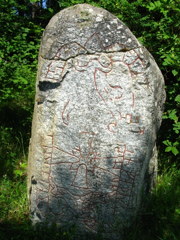 Runestone U 410, Norrtil, Sankt Olof parish, Uppland, Sweden